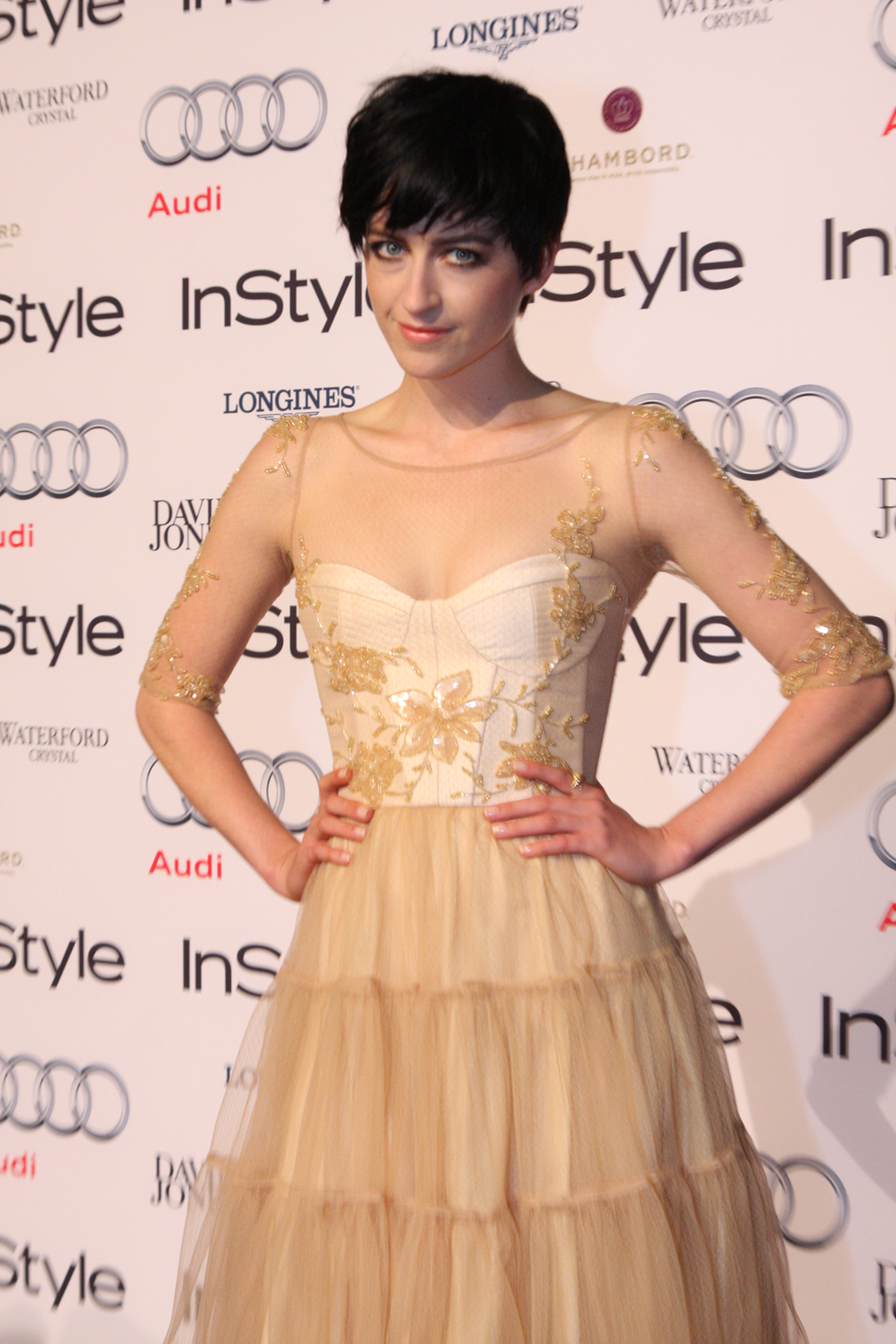 Megan Washington on the red carpet of the 2012 InStyle Women Of Style Awards.